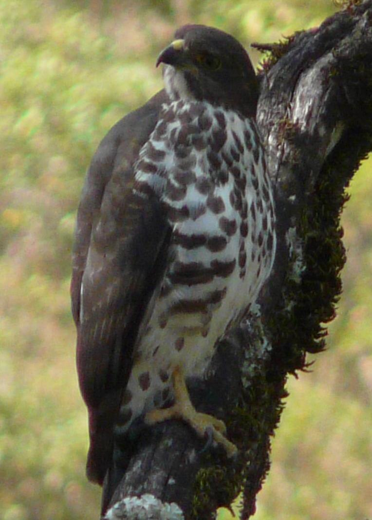 A Mountain Buzzard in Ethiopia.